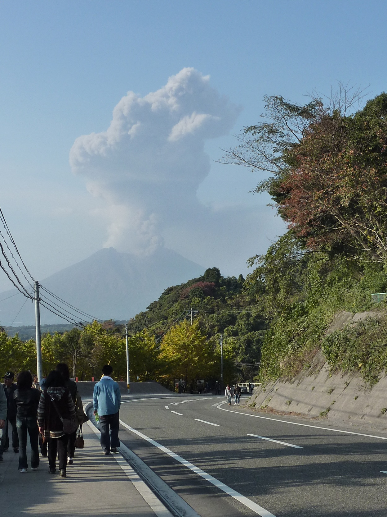 The Kagoshima Prefectural Road Route 71 Tarumizu Minaminogo Line near the Tarumizu Thousand Ginkgos in Tarumizu City, Kagoshima Prefecture, Japan